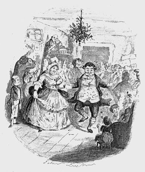 A Christmas Carol Mr. Fezziwig's Ball John Leech 1843 Wood engraving